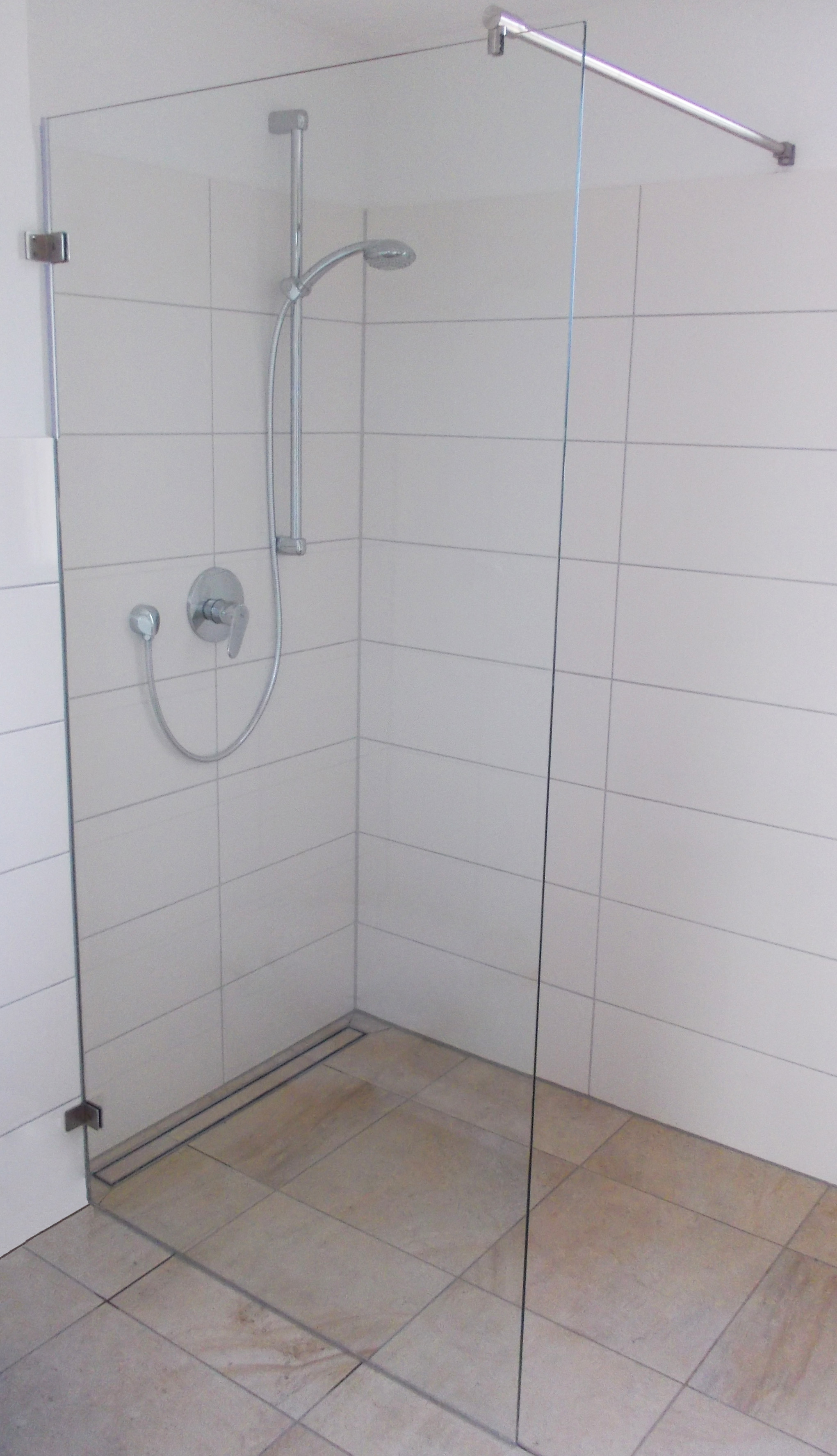 Shower cabin without door called walk-in shower